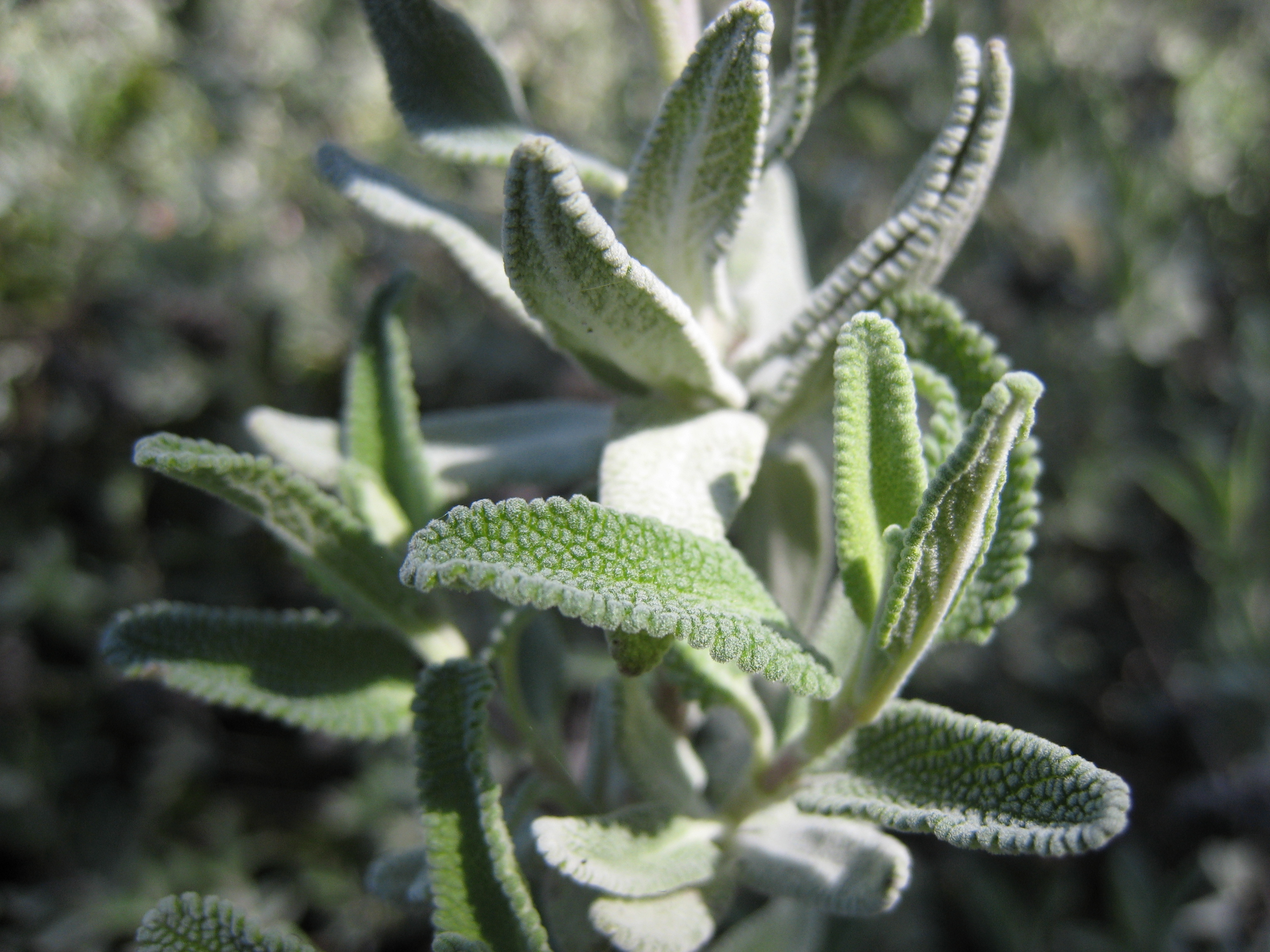 Salvia clevelandii (Cleveland Sage -- smells like cowboys!)